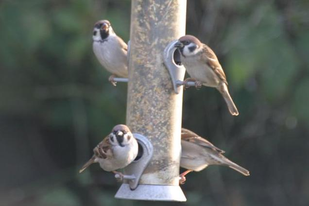 Tree Sparrow Rhion Pritchard Martin Mere, 19/11/2005